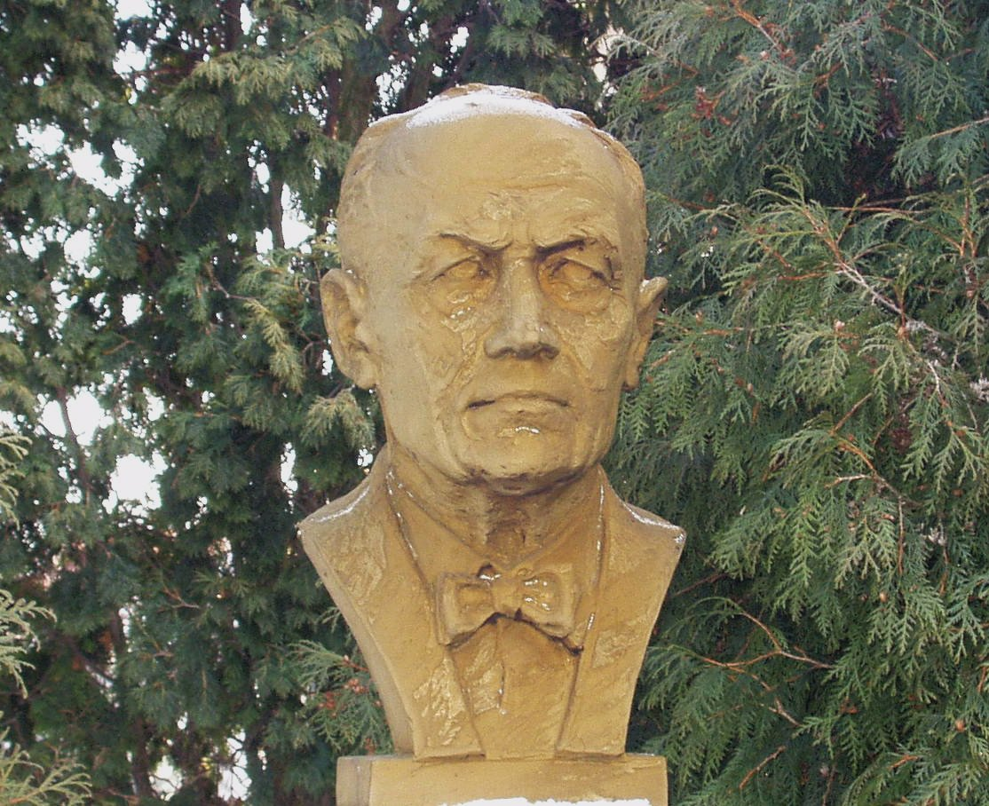 Bust of Czech archaelogist Bedřich Dubský in Čejetice (The Czech Republic)